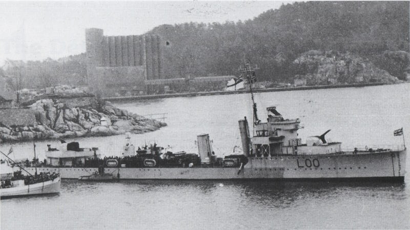 Photograph of British V Class destroyer HMS Valorous. She has the twin QF 4-inch Mk XVI anti-aircraft guns installed as part of her WAIR conversion.